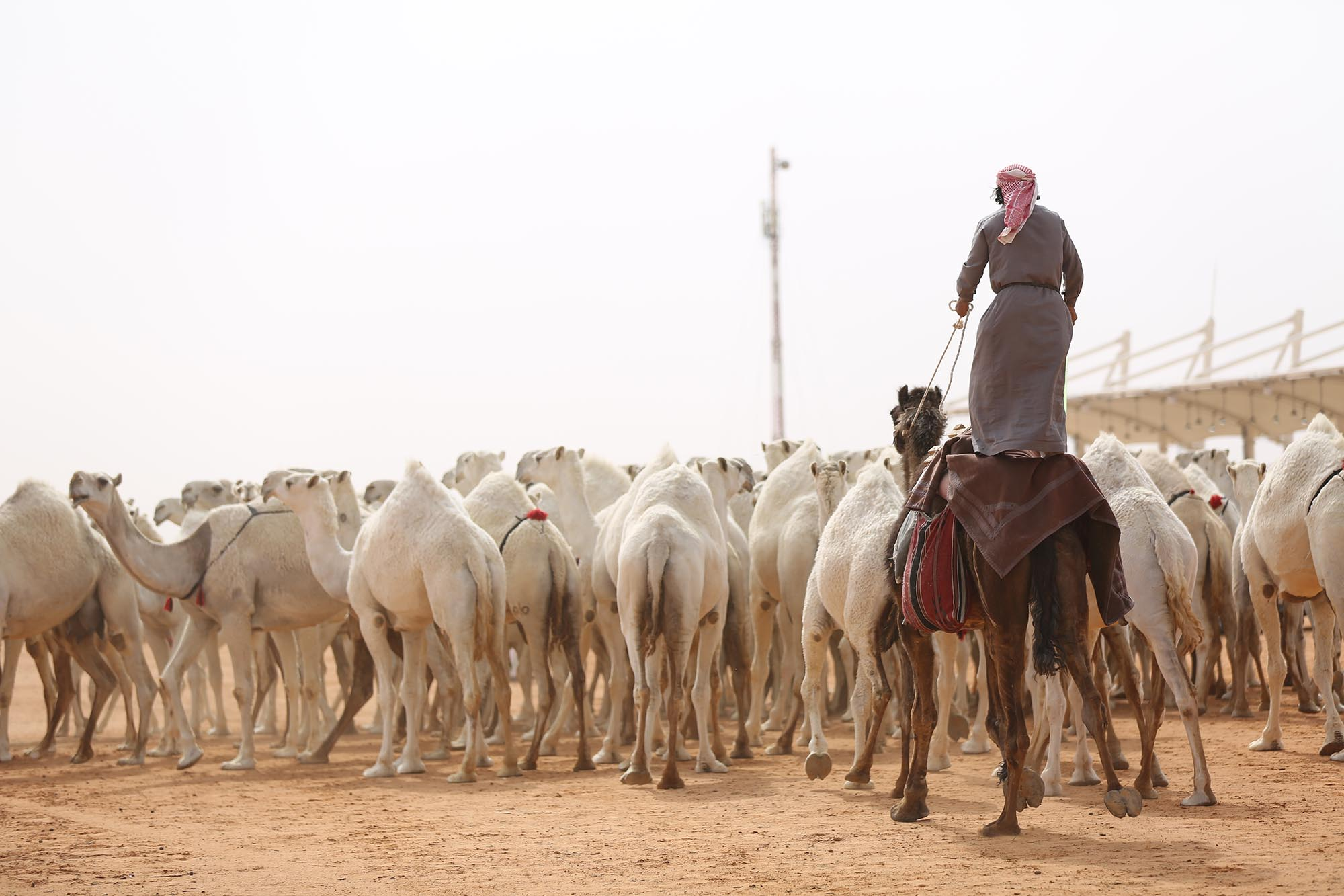 أشواط المزاين .. الحماس والإبداع